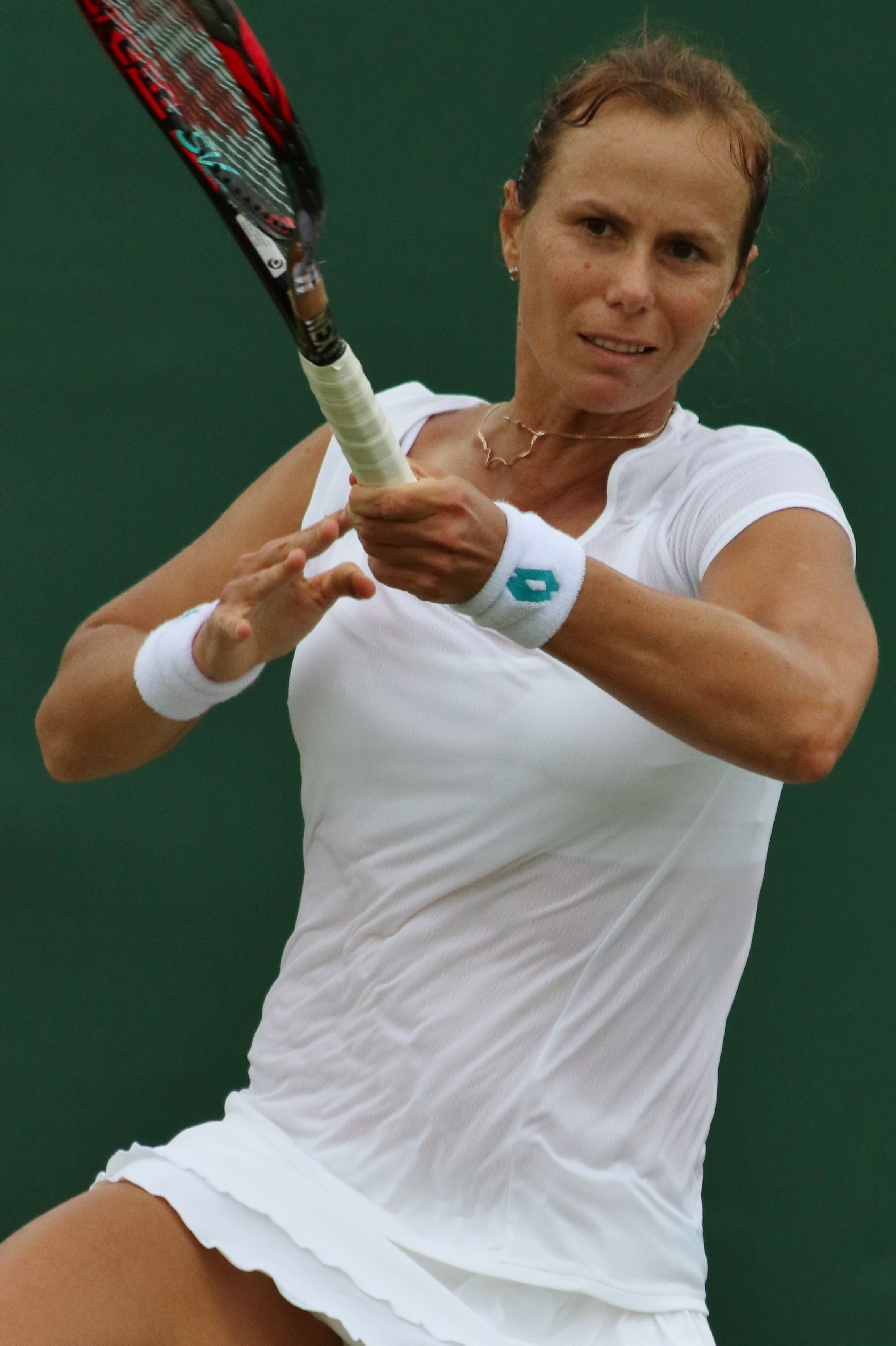 2019 Wimbledon Qualifying Tournament.